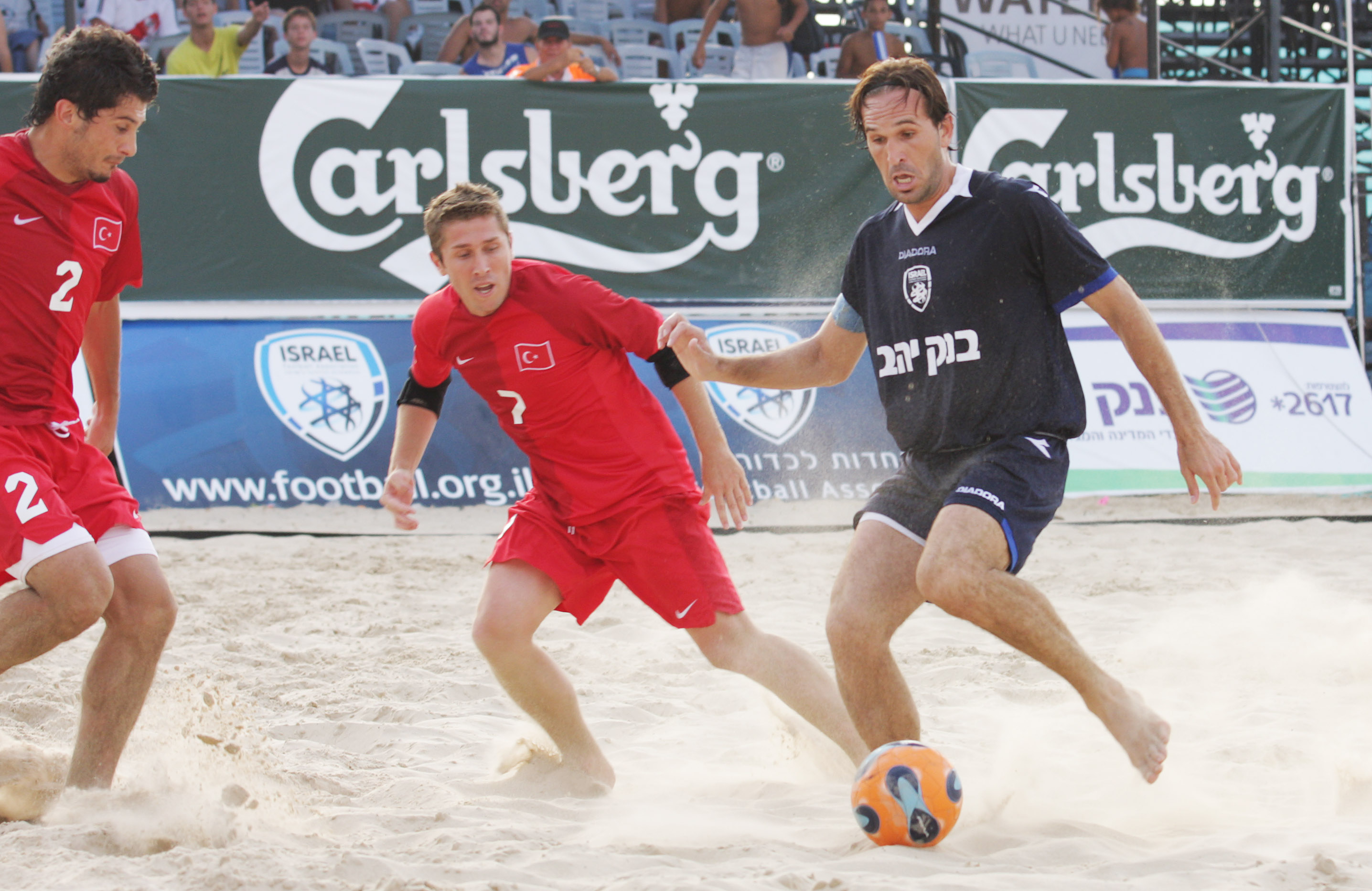 Photo from the match between the Israeli and the Turkish beach soccer teams, that was played as a part of the Challenge Cup 2008, at the Poleg beach in Netanya.